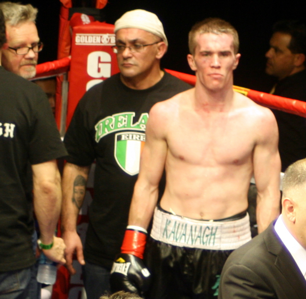 Jamie Kavanagh at Fight Night Club event at the Club Nokia in Los Angeles, California, United States.